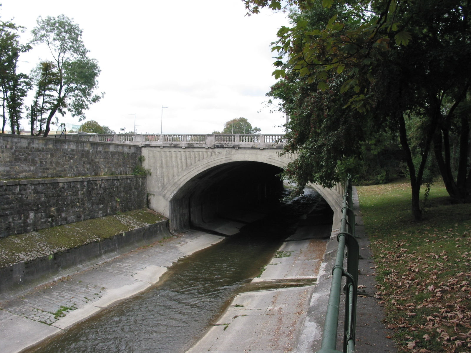 Schönbrunner Schlossbrücke over Wien river, Vienna XIII + XIV + XV